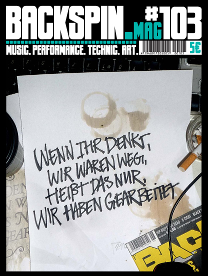 First BACKSPIN Mag Cover after reorientation 2010.